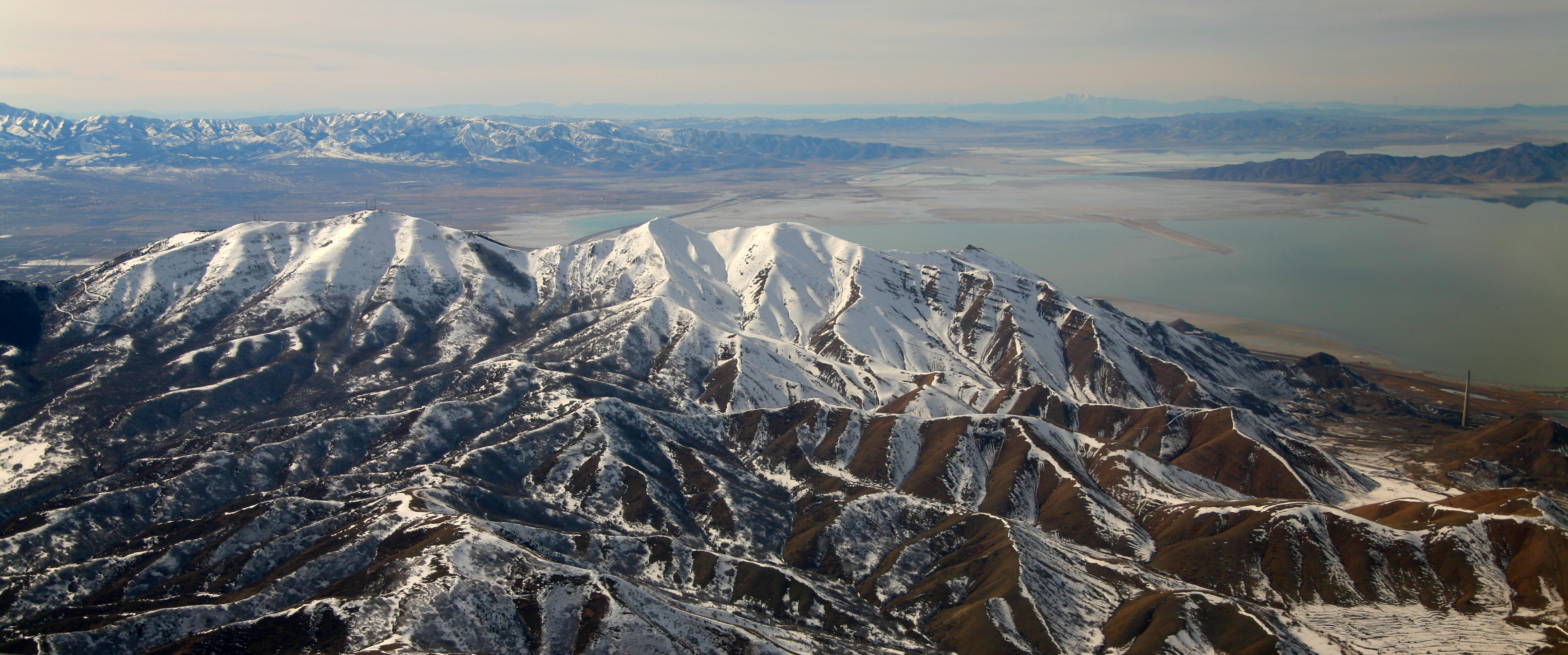 The northern end of the Oquirrh Mountains, the highest of which is Farnsworth Peak, home to nearly all of Salt Lake City's TV and FM stations.